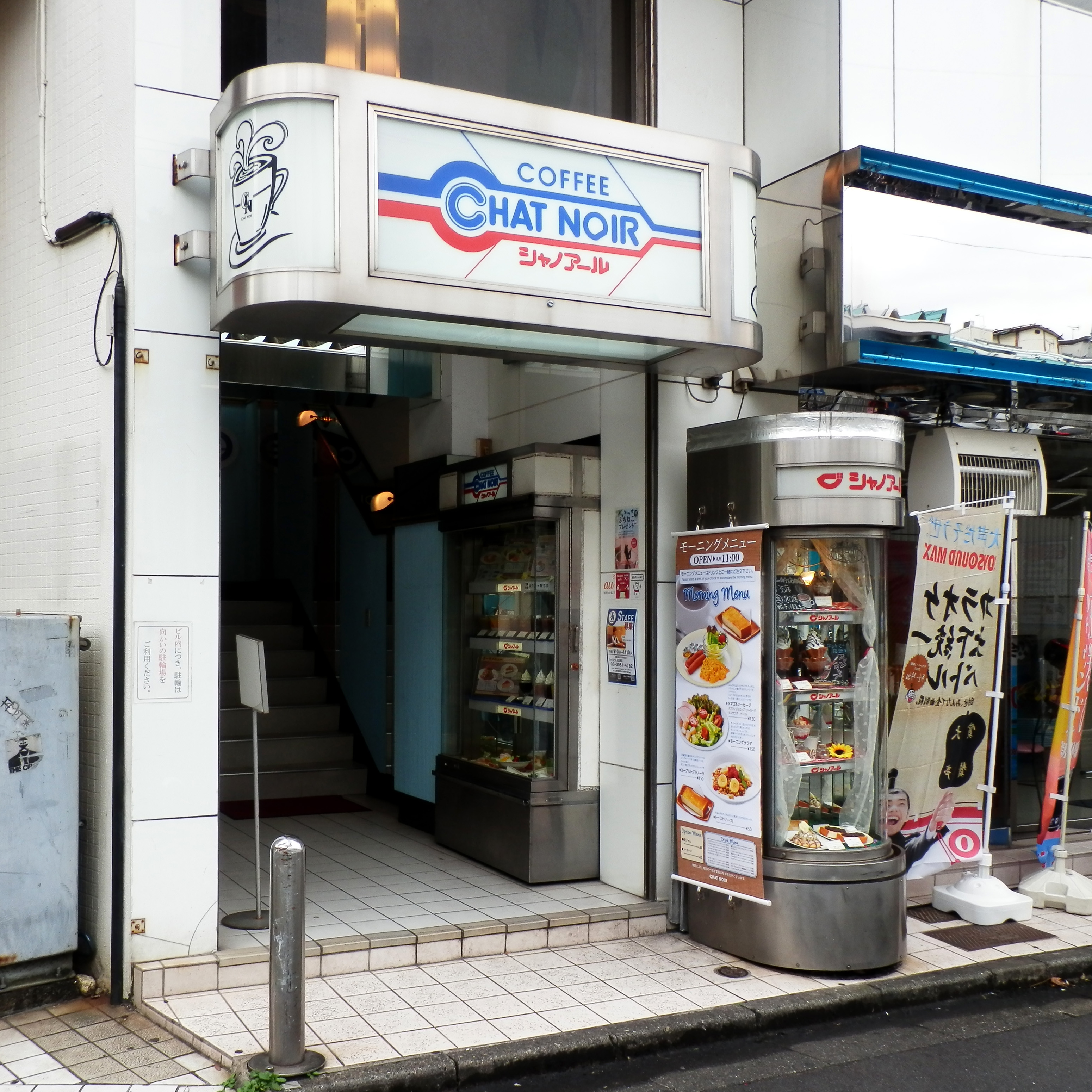 Chat Noir Egota branch (a coffee shop in Tokyo, Japan)